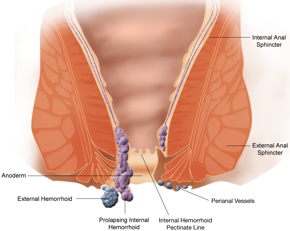 Diagram showing a variety of hemorrhoids.